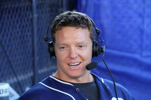 Nick Hundley of San Diego Padres at team's fan fest in 2014